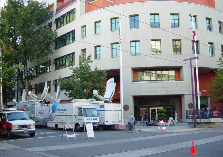 By Daniel Mayer. Released under terms of the GNU FDL